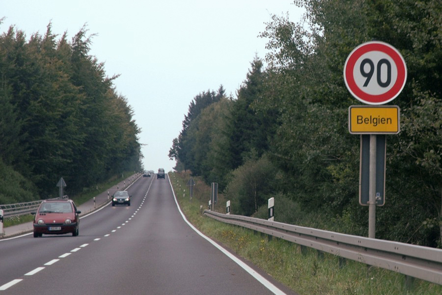 The German Bundesstraße 258 leads through Belgian territory between the municipalities Monschau and Roetgen. The small yellow sign saying “Belgium” in German is the only notification of this matter, as there is no connection to the Belgian road network along the three kilometres. However, the speed limit is 90 km/h (56 mph), corresponding to Belgian law (instead of 100 km/h or 63 mph in Germany).